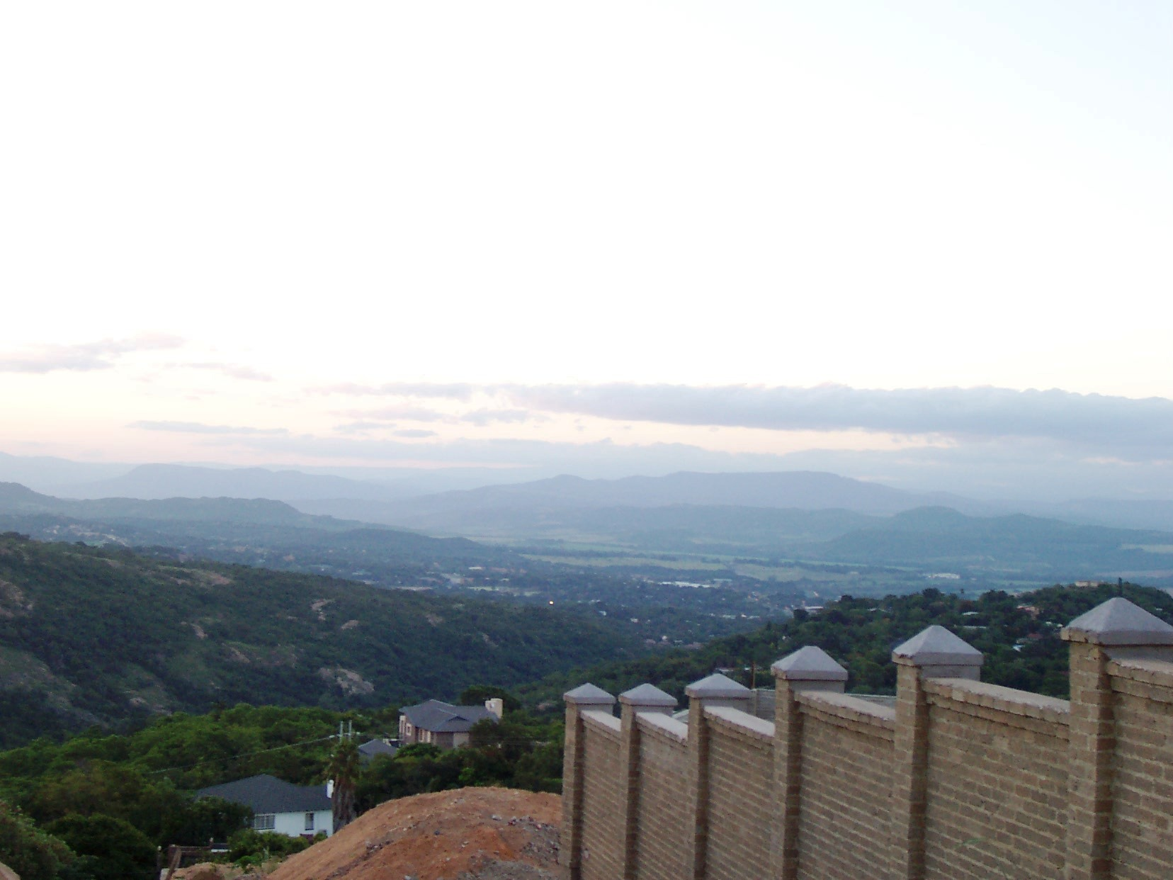 This is a panoramic view from the hilltops of Nelspruit. I took this in Feb-2005.